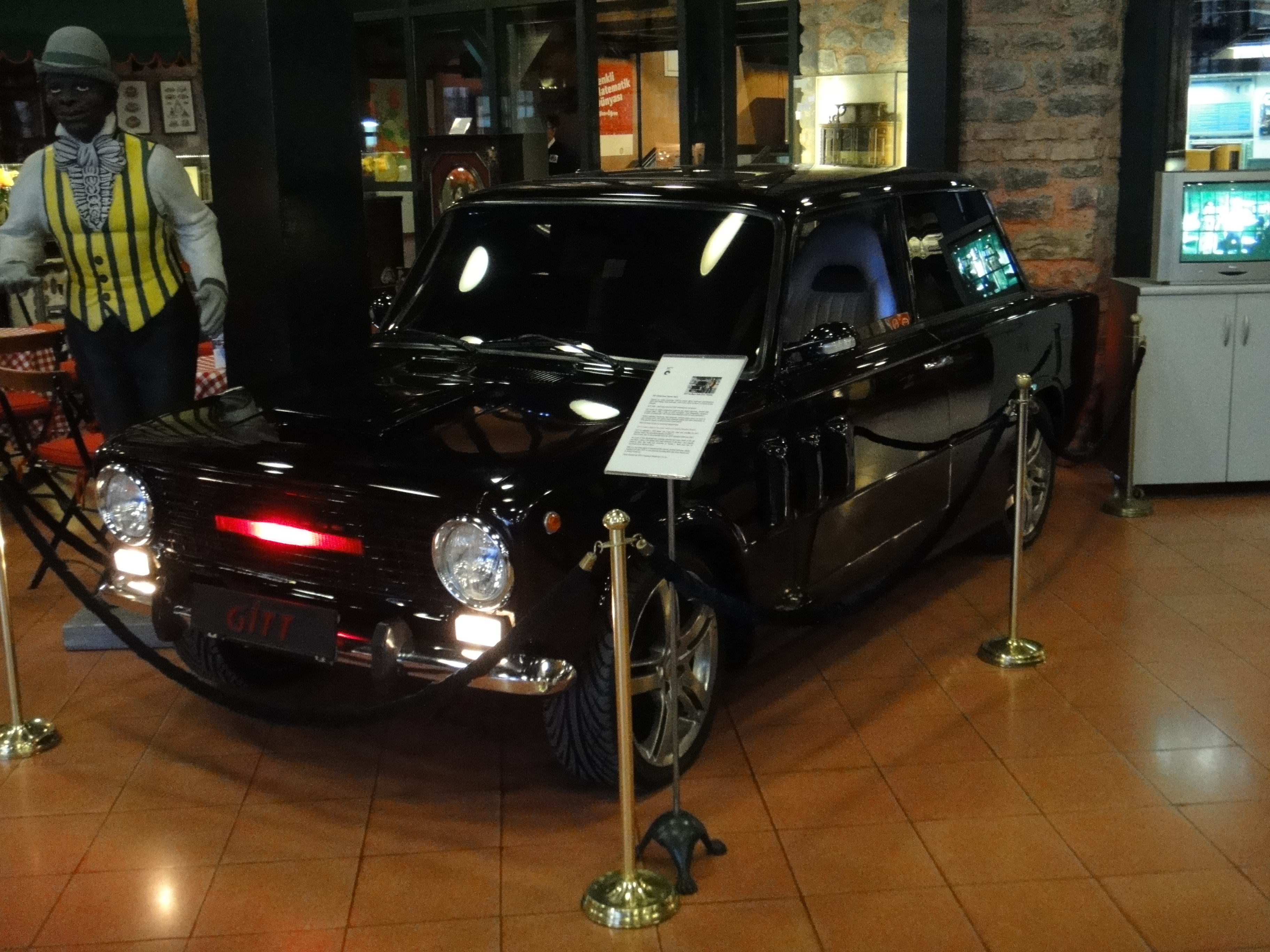 The 1975 Murat 124 (Fiat 124) used as "GITT" (Güzel Insan Taşıma Taşıtı, "Vehicle for Carrying Beautiful People") in advertisements by the Turkish fuel oil distribution company OPET in 2006 and 2007. Based on the "KITT" vehicle from the U.S. television series "Knight Rider".